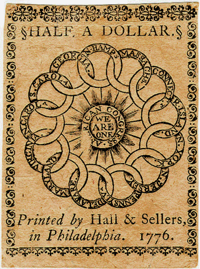 Continental Currency half dollar banknote reverse (February 17, 1776)